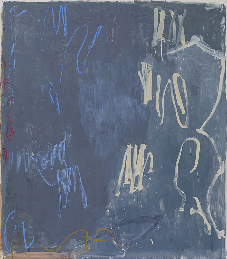 Christopher Le Brun, Moment, 2014, oil on canvas, 160 x 140 cm.